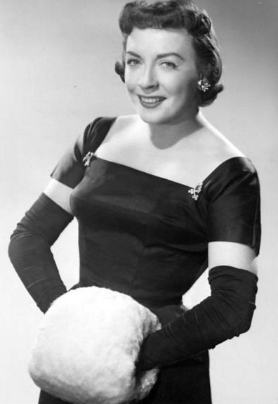 Publicity photo of weatherperson Carol Reed.